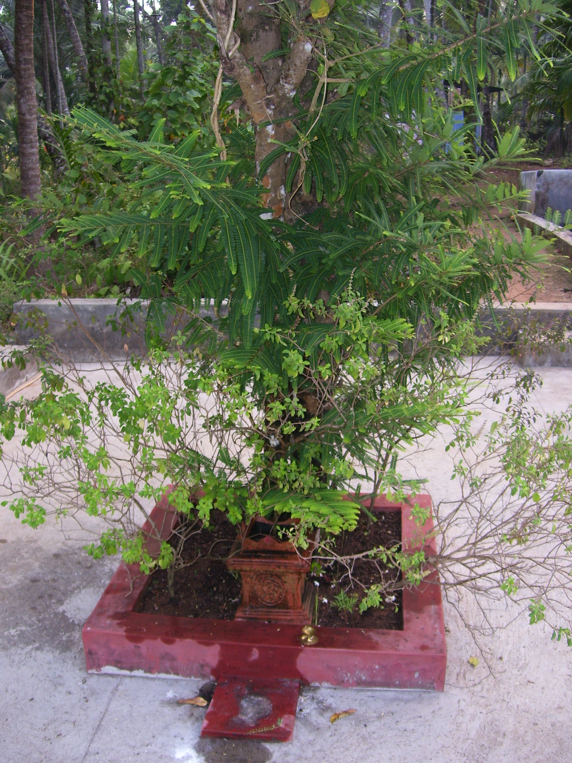 Tulasi Katte is found in front of many houses of Hindus.